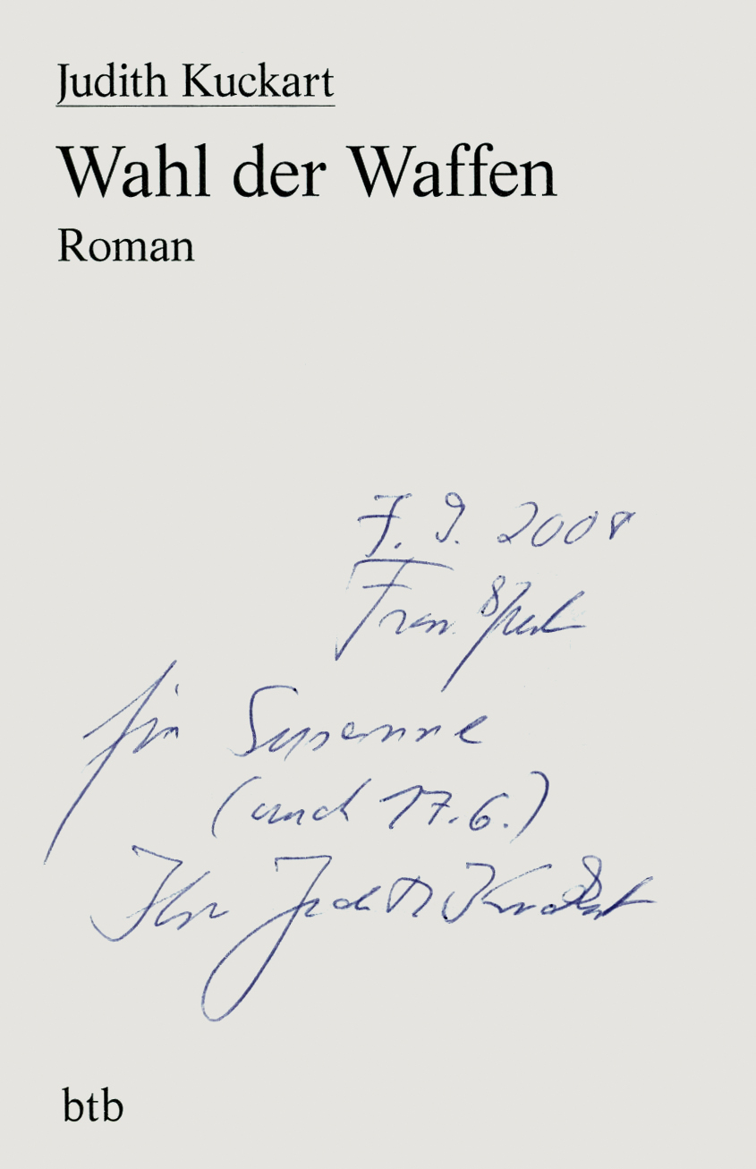 autograph from Judith Kuckart